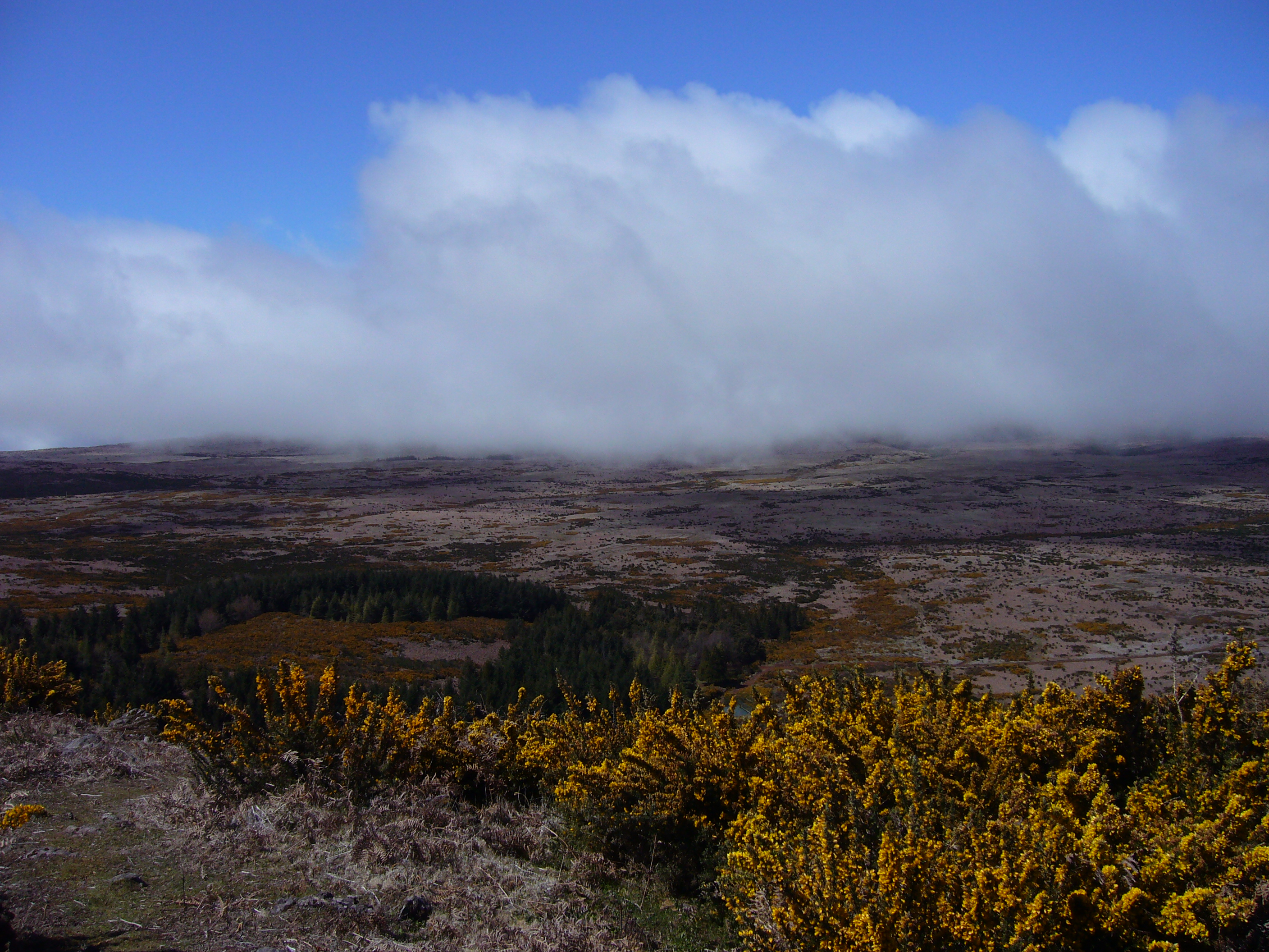 View from the top of Pico Ruivo do Paul toward the Paul da Serra upland in Madeira Island. Yellowish blossoming bushes are Ulex Europaeus.